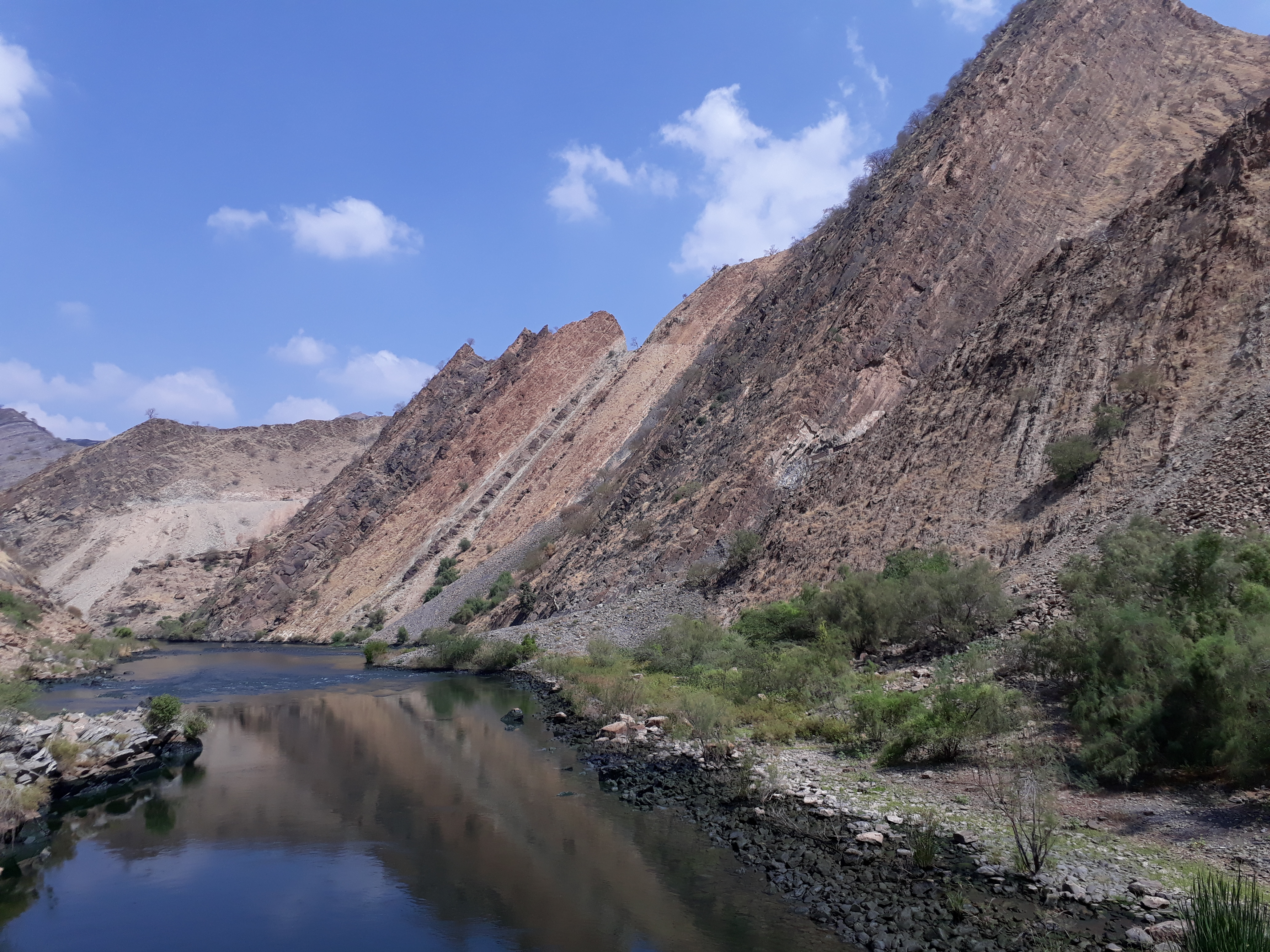 Tekezze gorge